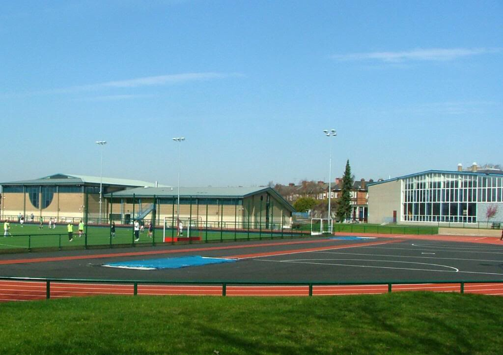 Hutchesons' Grammar School Secondary